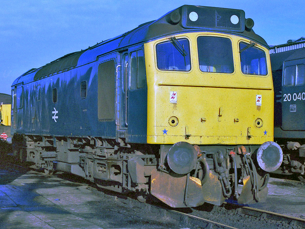 A yet to be identified British Railways Type 2 Bo-Bo class 25 diesel-electric locomotive stands on Spring Branch Traction Maintenance Depot at Wigan